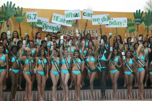 Miss Earth 2008 Press Presentation